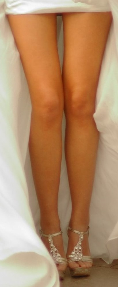 Thigh gap